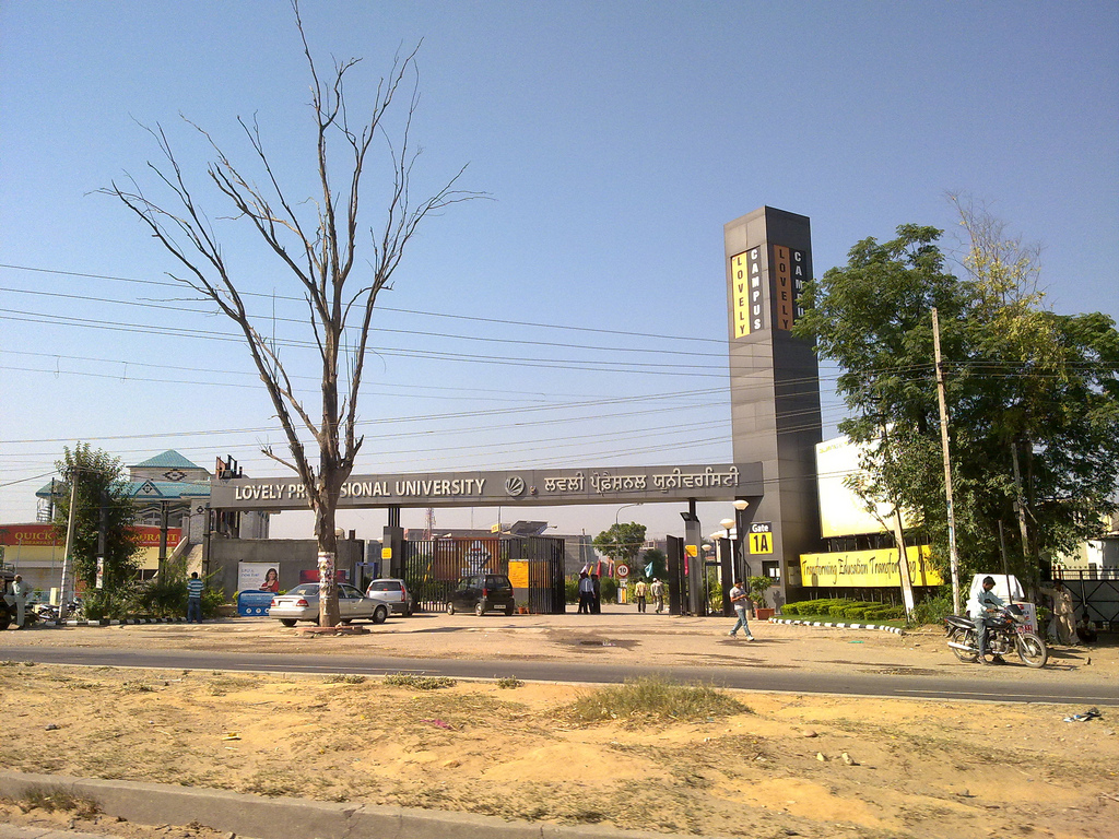 The entrance gate, as seen from the other side of highway.